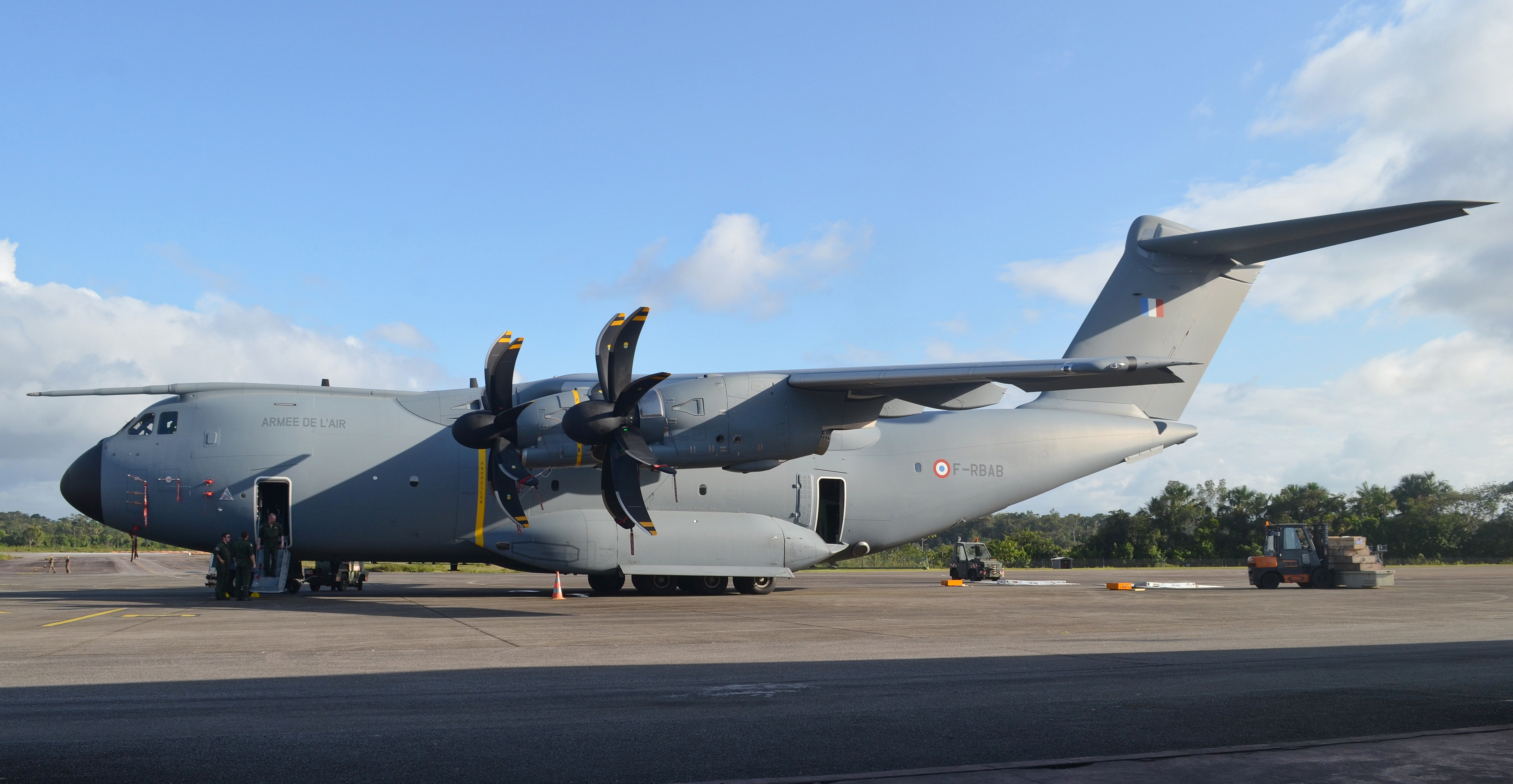 The first A400M in French Guiana !!!